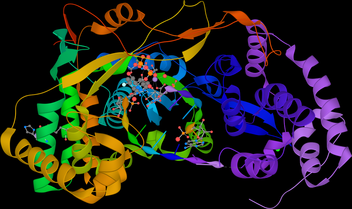 Structure of HCV RNA replicase when stalled (PDB 4WTG), rendered by LiteMol. In complex with sofosbuvir diphosphate. PMID 25678663.